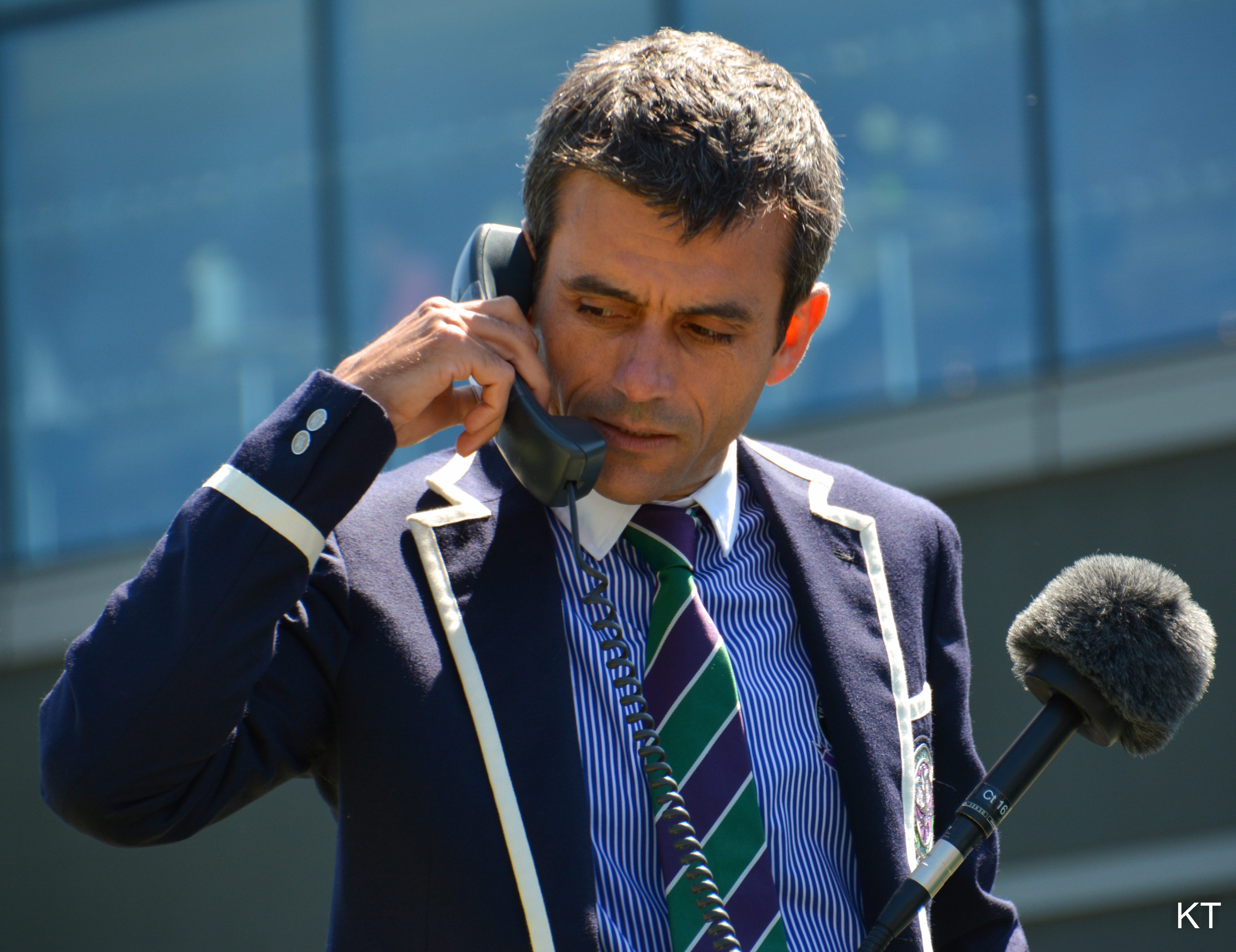 "Sorry, wrong number." Umpire Carlos Ramos just before the start of play on Day 5 of Wimbledon 2015.